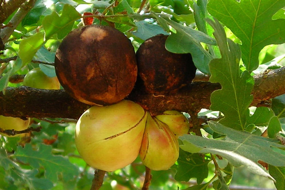 Young and old galls on Quercus lobata in Monte Sereno, California. The young galls on the bottom are still growing, while the old galls on top have dried out.